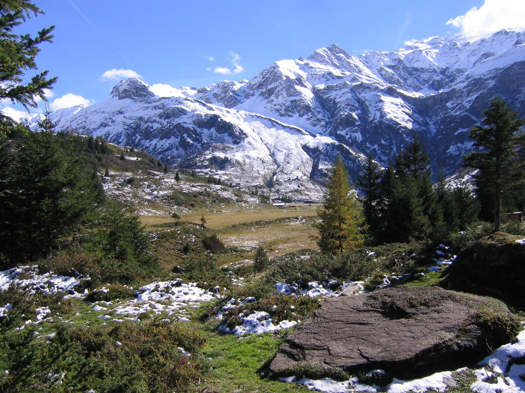 Sportgastein, Hohe Tauern. View direction south-southeast. In the background, from left to right, Eselkar, Westerfrölkekogel (2727 metres) and Vorderer Geisslkopf (2974 metres, rightmost).